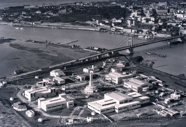 Belgrade Trade Fair on the left bank of the river Sava, Belgrade, 1937. Catalog mark: Lz NS